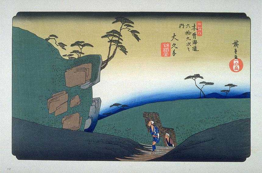 Okute on the Kisokaido, ukiyo-e prints by Hiroshige